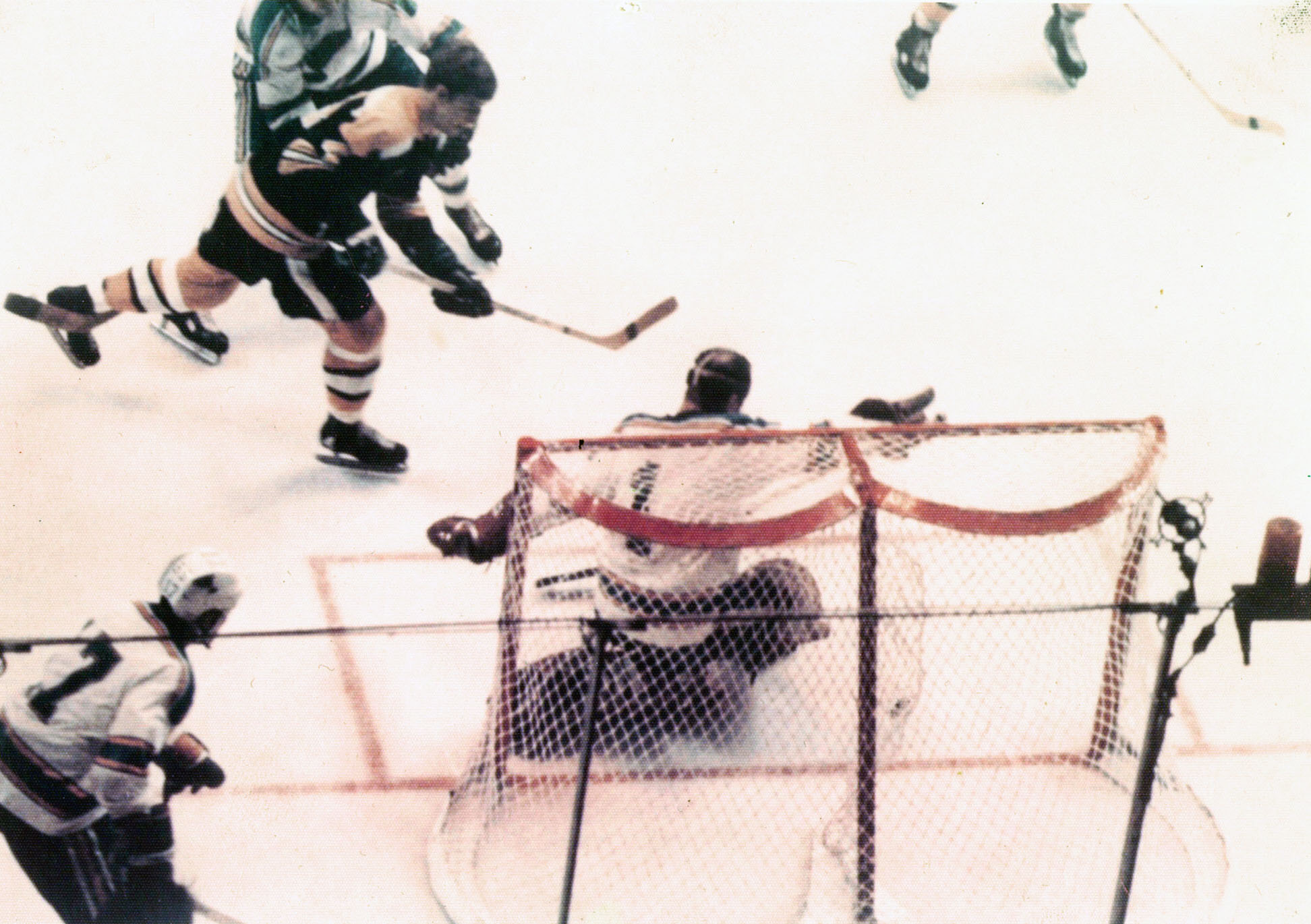 Bobby Orr being tripped in Stanley Cup Playoff, May 10, 1970.